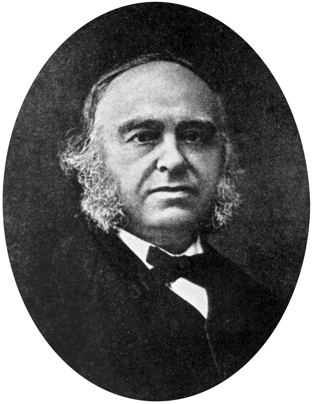 Broca, Paul 1824-1880